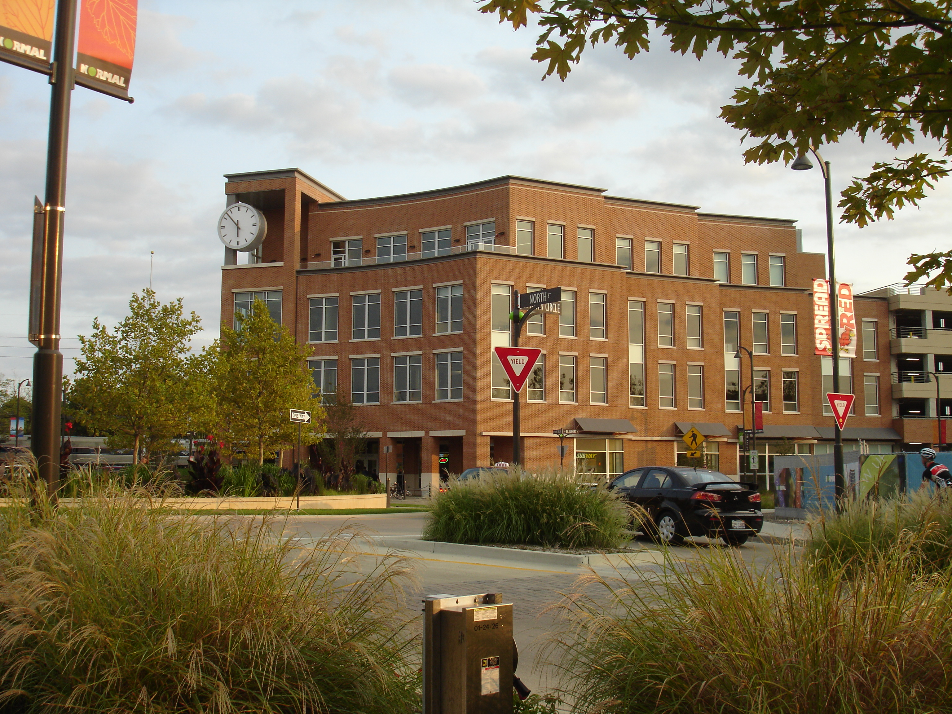 The current Amtrak terminal in Normal, Illinois. Shown here in September 2012, the facility opened in July 2012. The upper floors serve as City Hall for the Town of Normal.